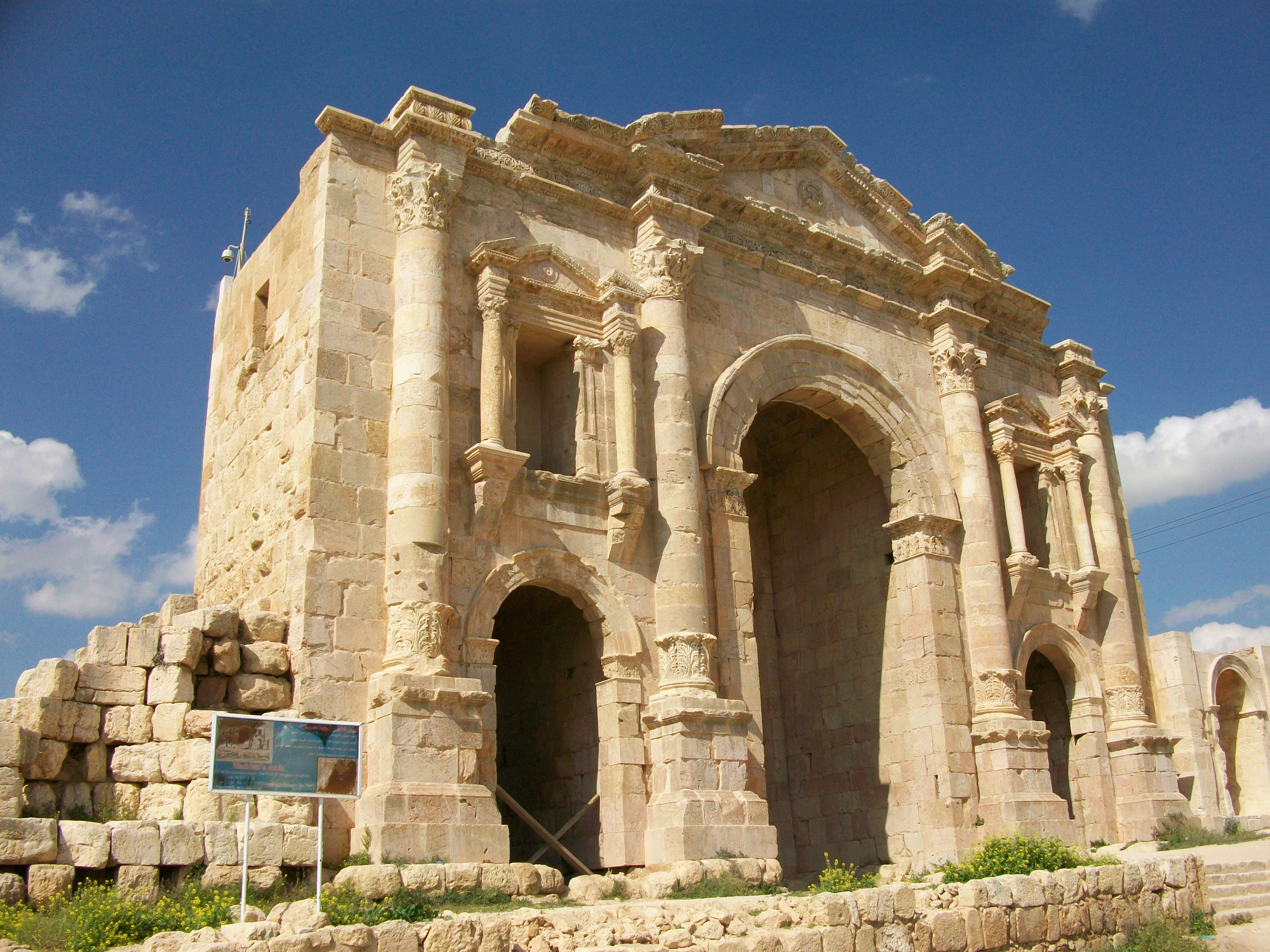 Hadrian's Arch, main gate to Roman ruins at Jerash, Jordan